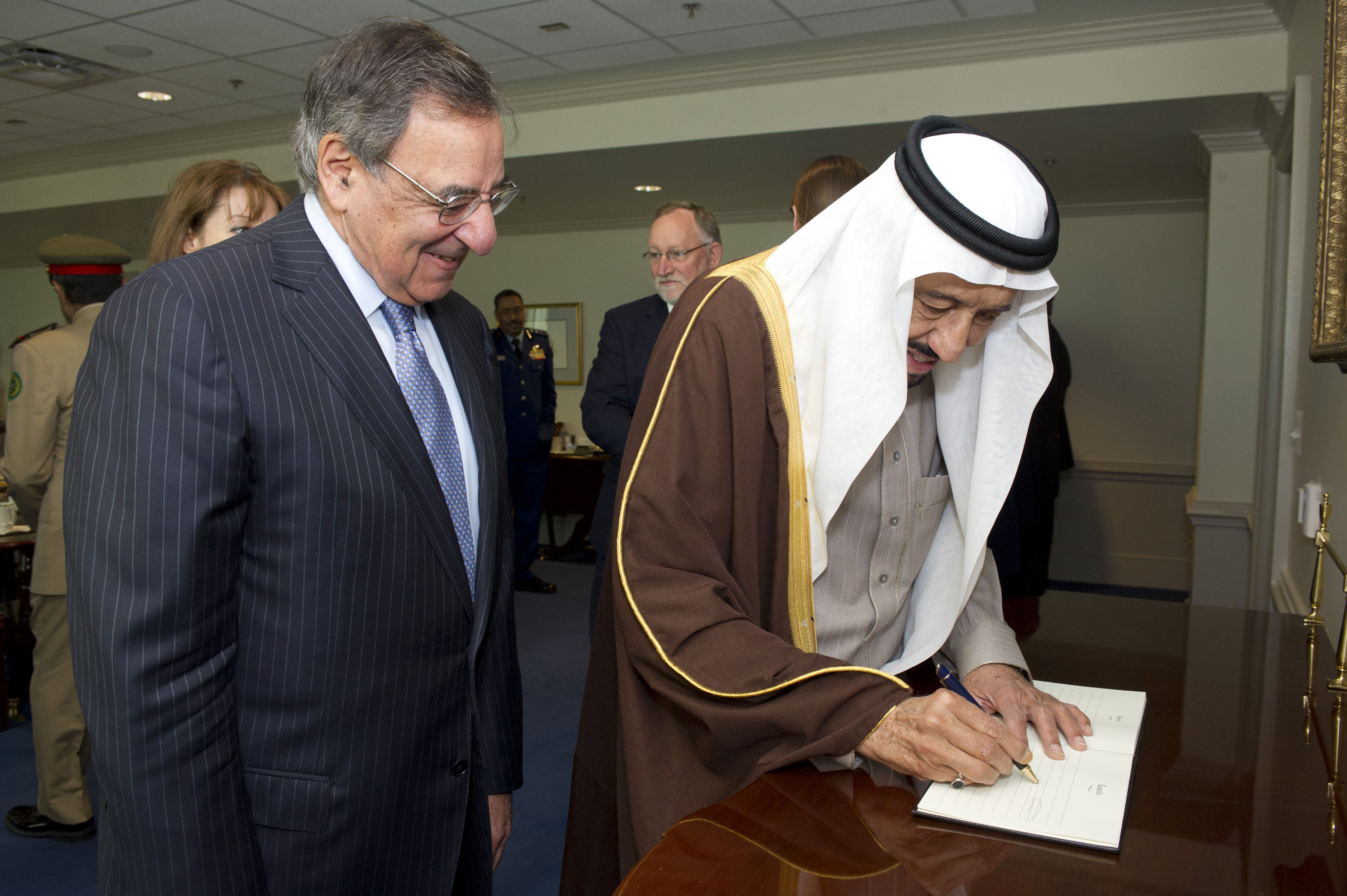 Secretary of Defense Leon E. Panetta stands with Saudi Arabian Minister of Defense Prince Salman bin Abd al-Aziz Al Saud as he signs the guest book prior to a meeting in the Pentagon on April 11, 2012.